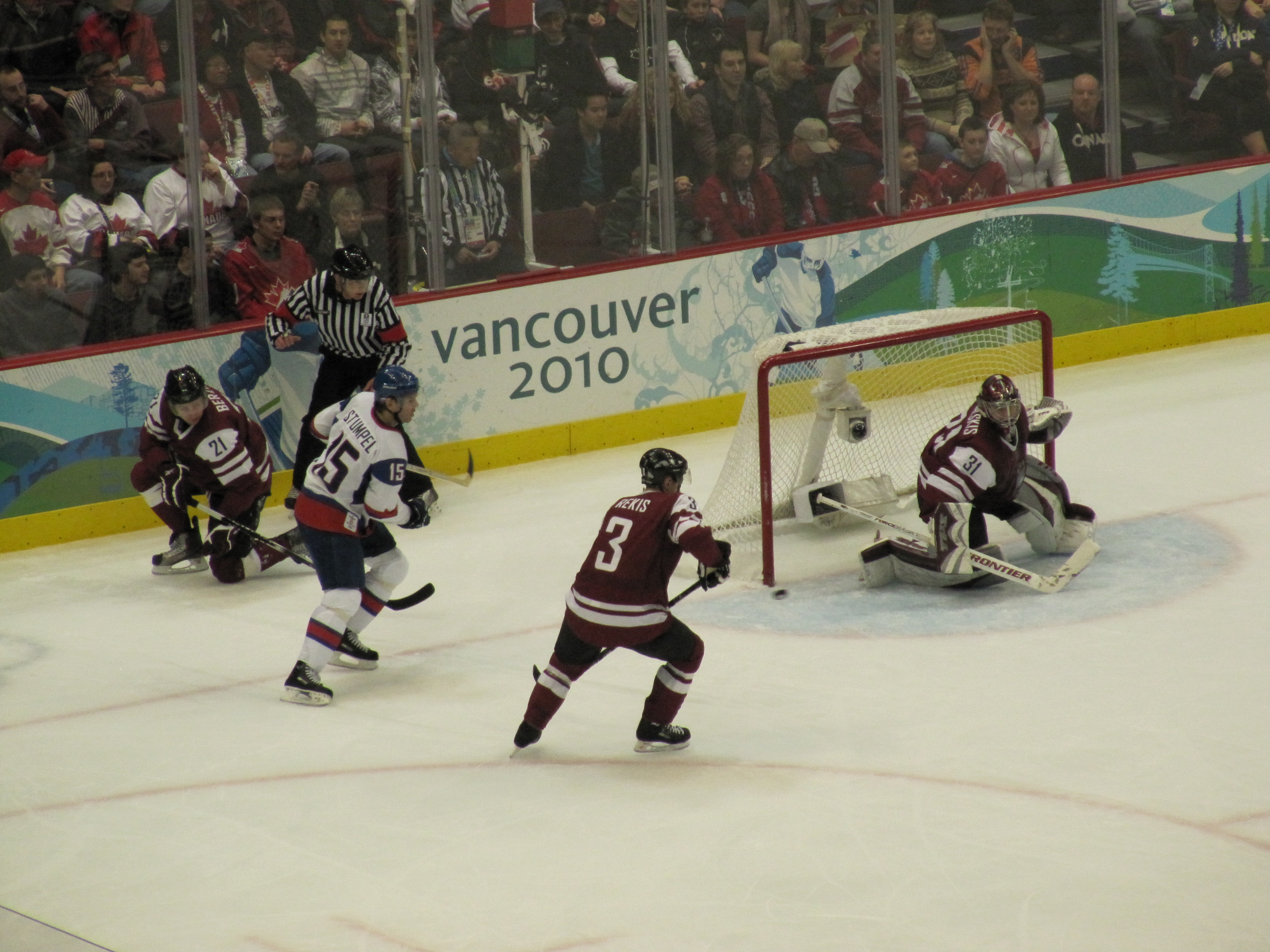 Slovakia vs Latvia @ Canada Hockey Place